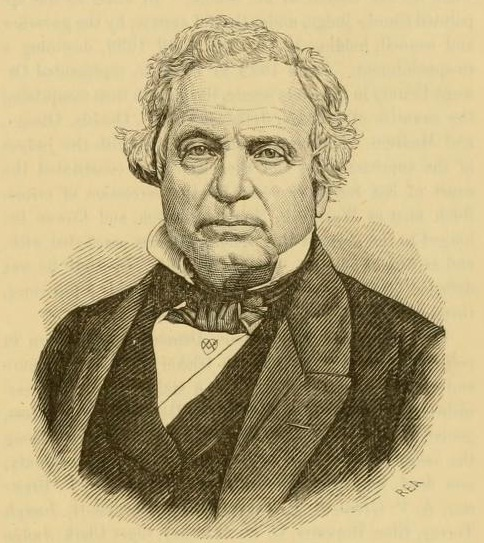 Portrait of New York state senator Avery Skinner (1796-1876)